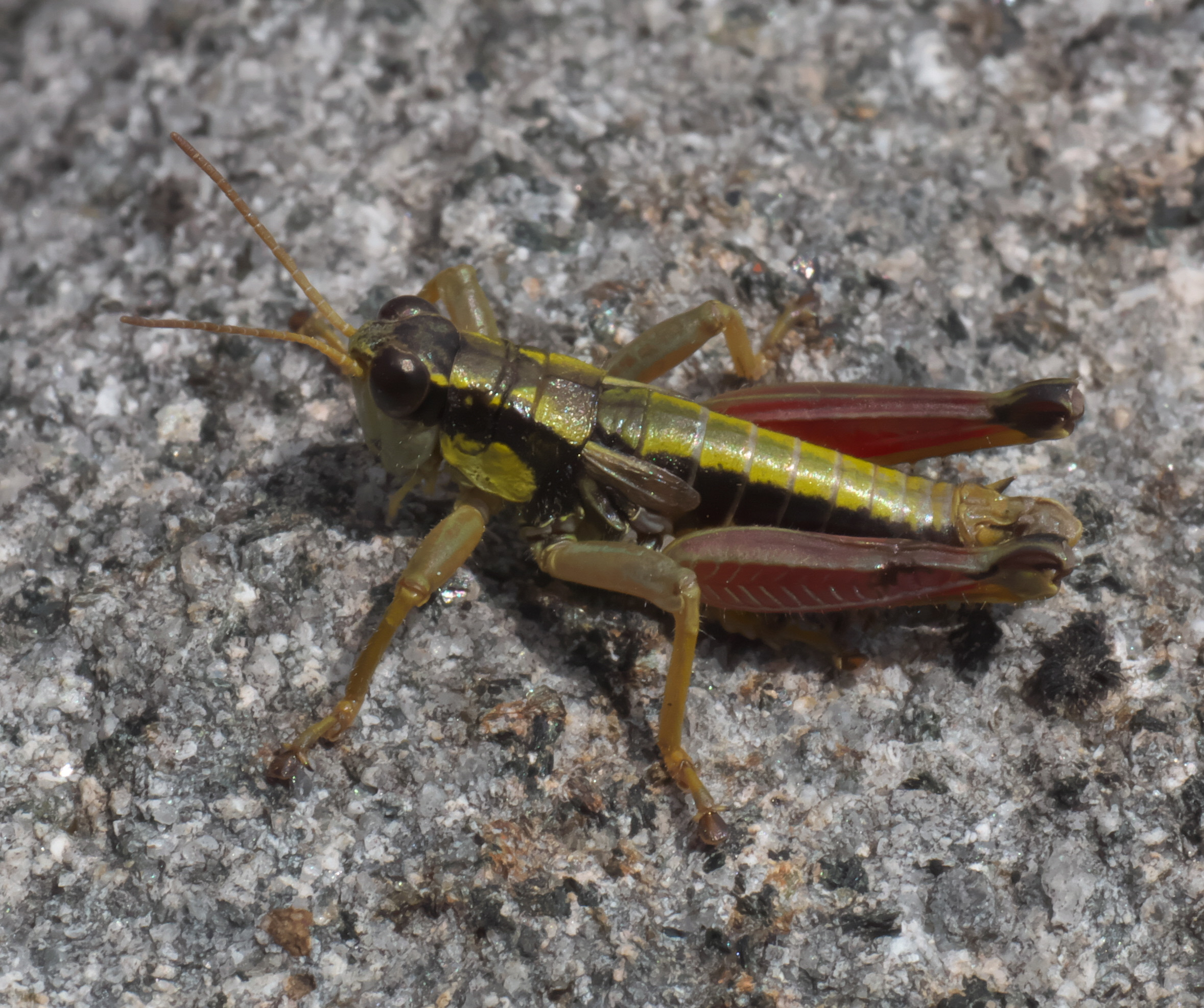 Prumnacris rainierensis, Cascade Timberline Grasshopper, adult male, ID Confidence: 98